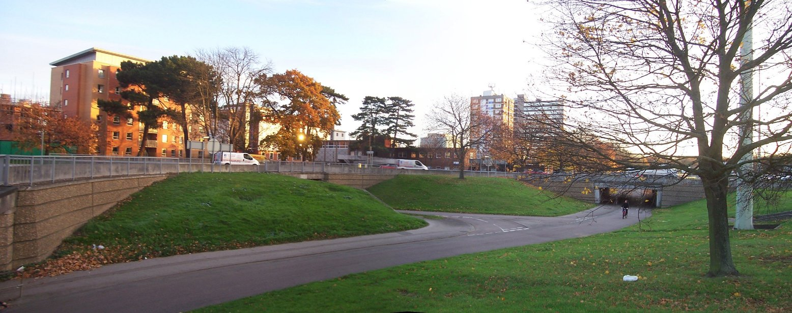 Stevenage town center urban landscape. Cycle tracks under and inside a traffic roundabout. (And the base of one of those tall street-lights).